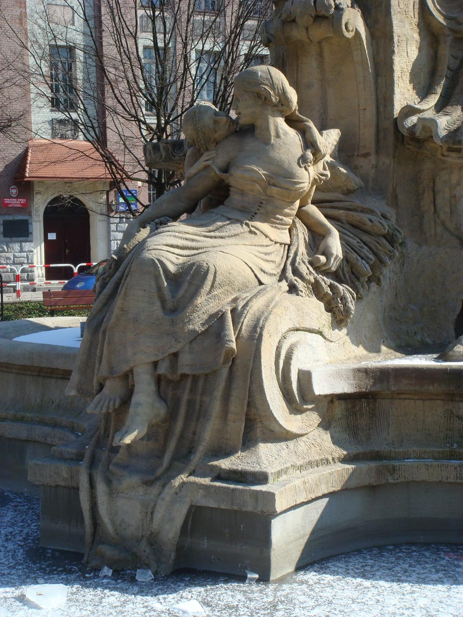 Detail of the Fountain of Ceres at Daszyński Square in Opole